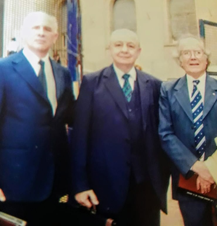 Carlos, Alejandro y Adolfo